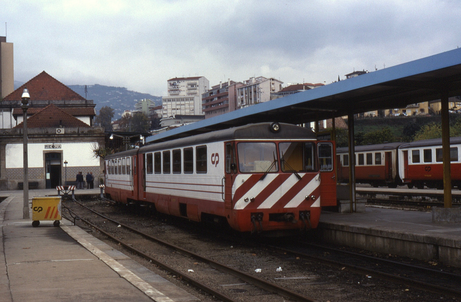 9708 and 9709 seen in the metre gauge bay platforms at Régua on 7 November 1993 about to work train 6105, 10:30 Régua to Vila Real. Known as the Linha do Corgo, Originally going through to Chaves, the branch was cut back to Vila Real in 1990. Poor condition of the track was given as the reason for service suspension in 2009. Repairs were considered, however the line remained closed and has since been lifted.